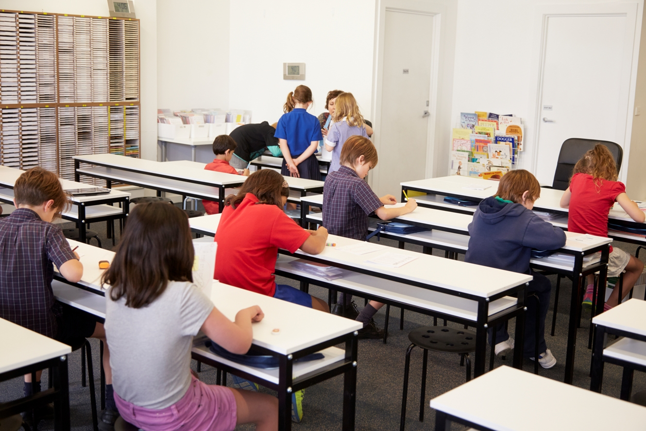 Students studying at a Kumon Centre